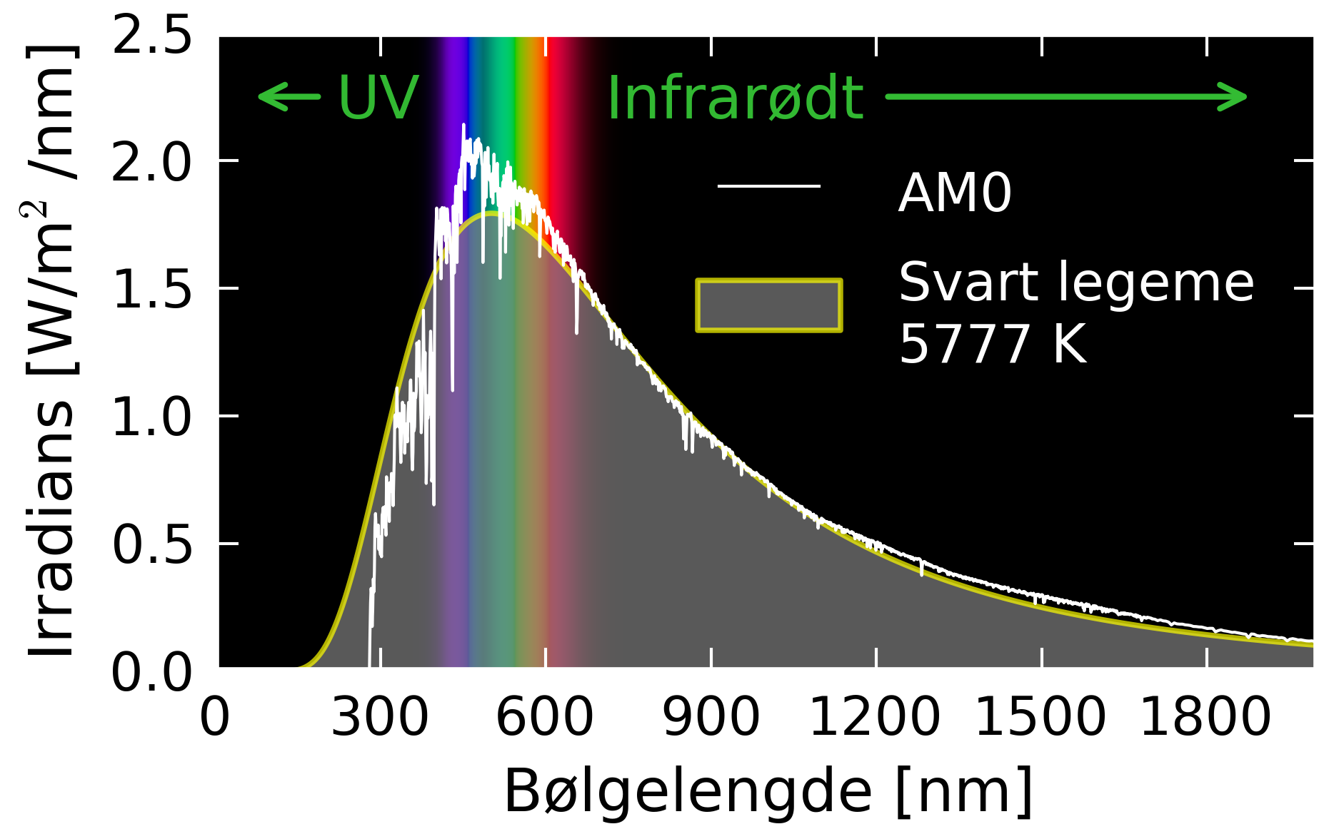 Solar AM0 (Air Mass Zero) spectrum (Chris A. Gueymard 2002) as included in SMARTS 2.95, together with a blackbody spectrum for 5777 kelvin and solid angle 2.16e-5*π steradian for the source (the solar disk). The visible region of the electromagnetic spectrum is shown using the CIE visible spectrum as implemented in ColorPy by Mark Kness (2008). Figure with Norwegian Bokmål labels.